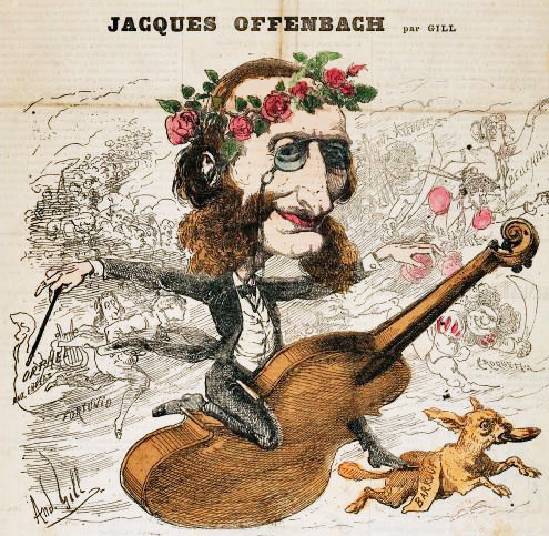 Caricature of Jacques Offenbach